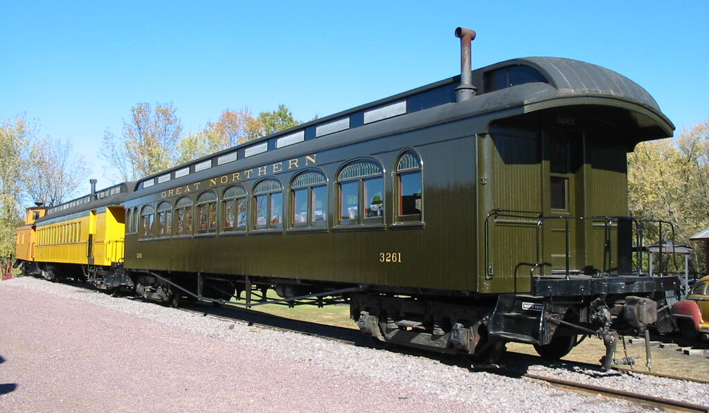 Restored Barney and Smith Car Company passenger cars on display at the Mid Continent Railway Museum in North Freedom